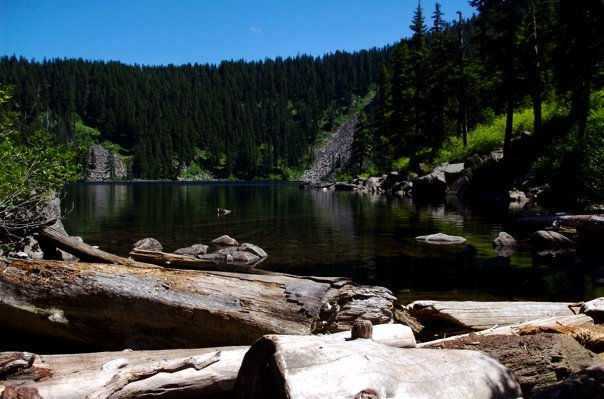 View of Mason Lake on Bandera Mountain, 1000 feet below the peak.